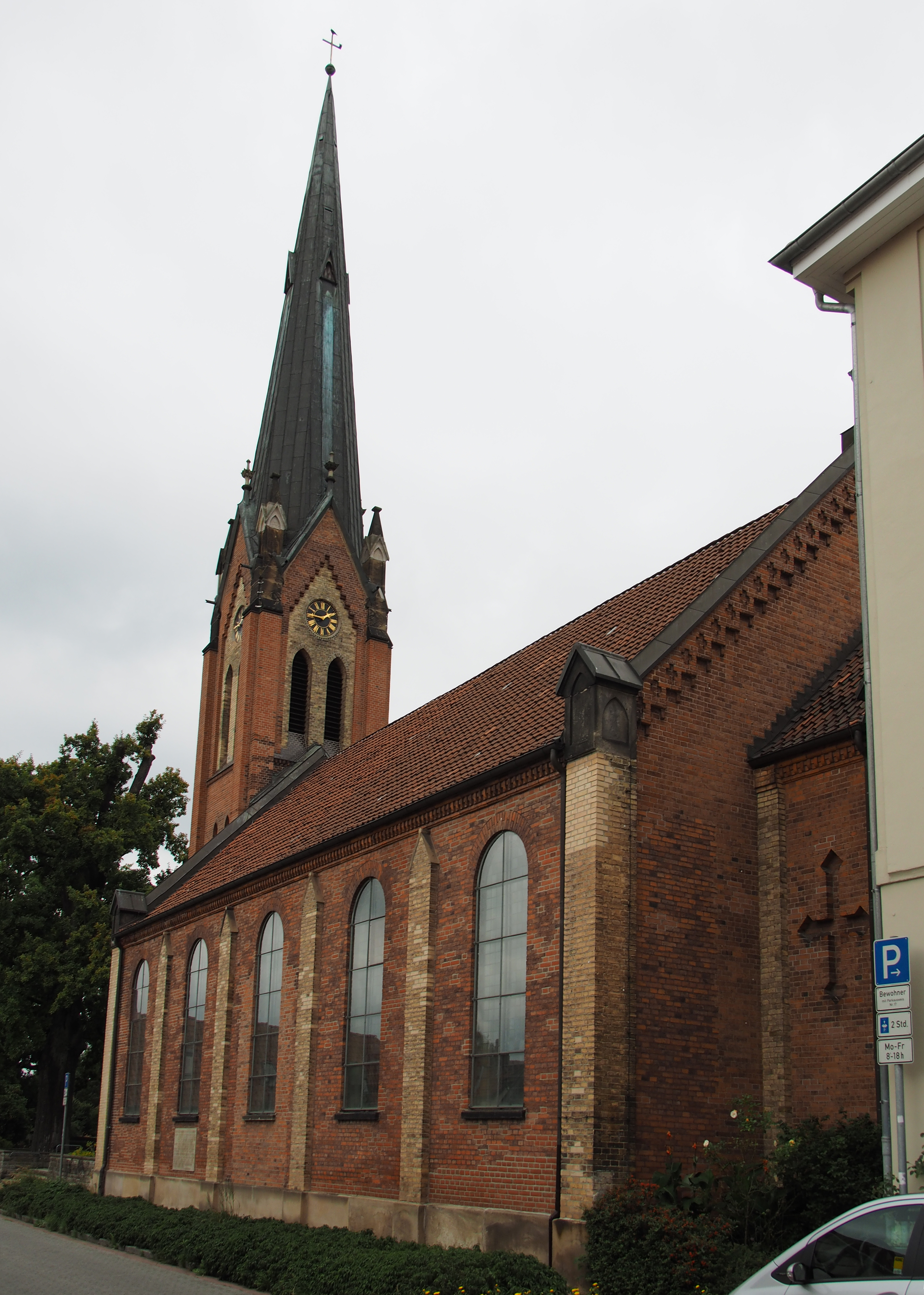 Neuenhäusen Church, town district Neuenhäusen, Celle, Lower Saxony, Germany